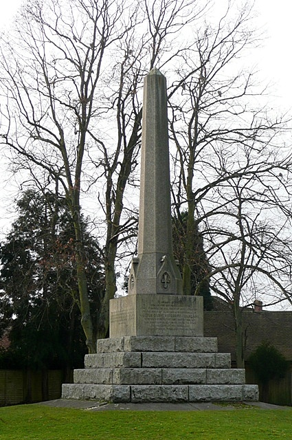 Falkland Memorial. This is the monument to Viscount Falkland, one of the royalist commanders at the 1st battle of Newbury. The inscription on the stone can be seen here 1181177 and the opposite view can be seen here 1181172. I checked carefully with the GPS which square this is in. I am standing four metres in from the north-east corner of the square looking south-west, with my back to the roundabout junction of the Andover Road with Essex Street, so I am confident this is the correct square.